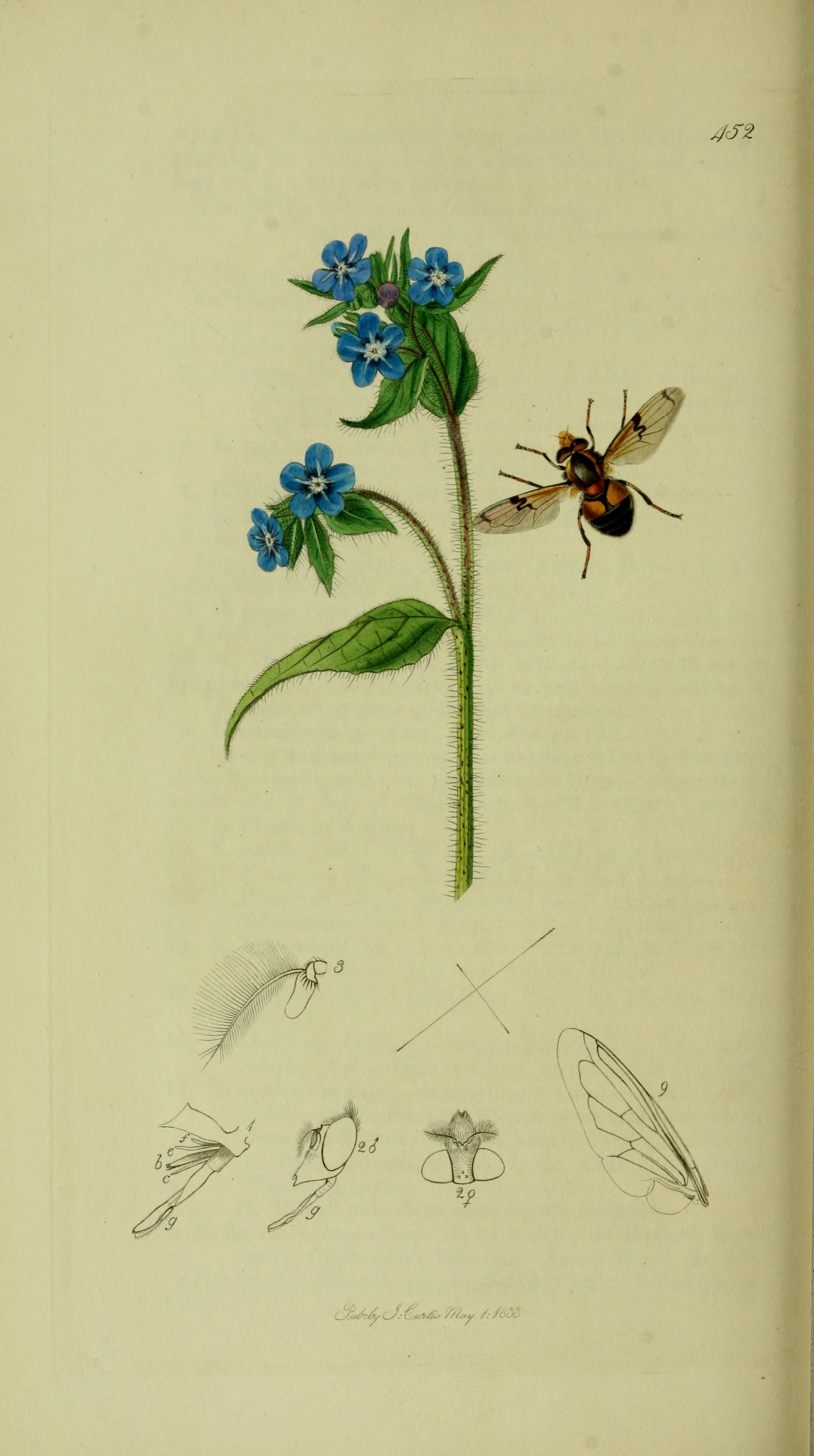 John Curtis British Entomology (1824-1840) Folio 452 Diptera: Volucella inflata (Inflated Hover-fly).The plant is Pentaglottis sempervirens (Evergreen Alkanet).